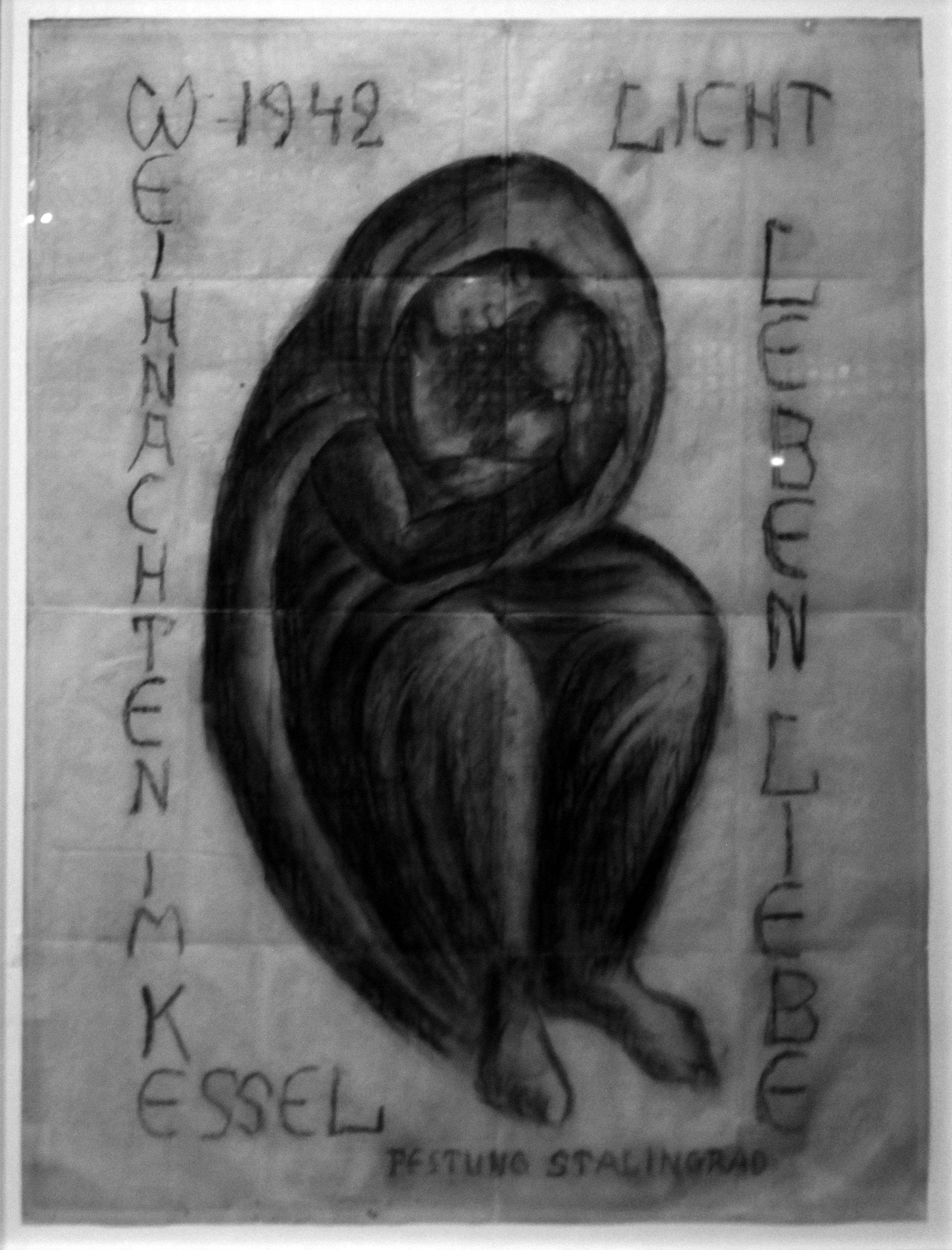 Stalingrad Madonna